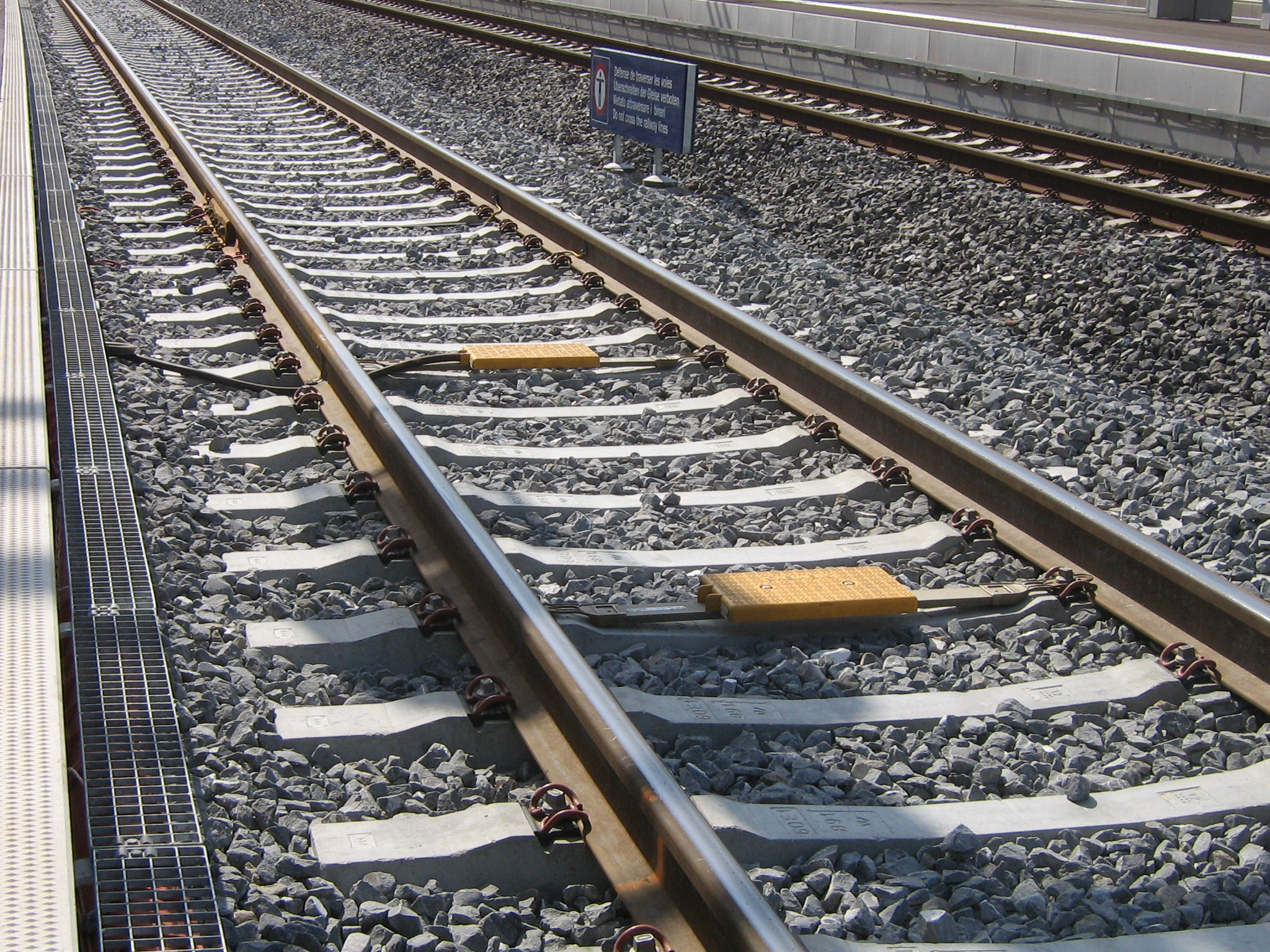 ETCS Eurobalise at the entry of the Prilly-Malley station.